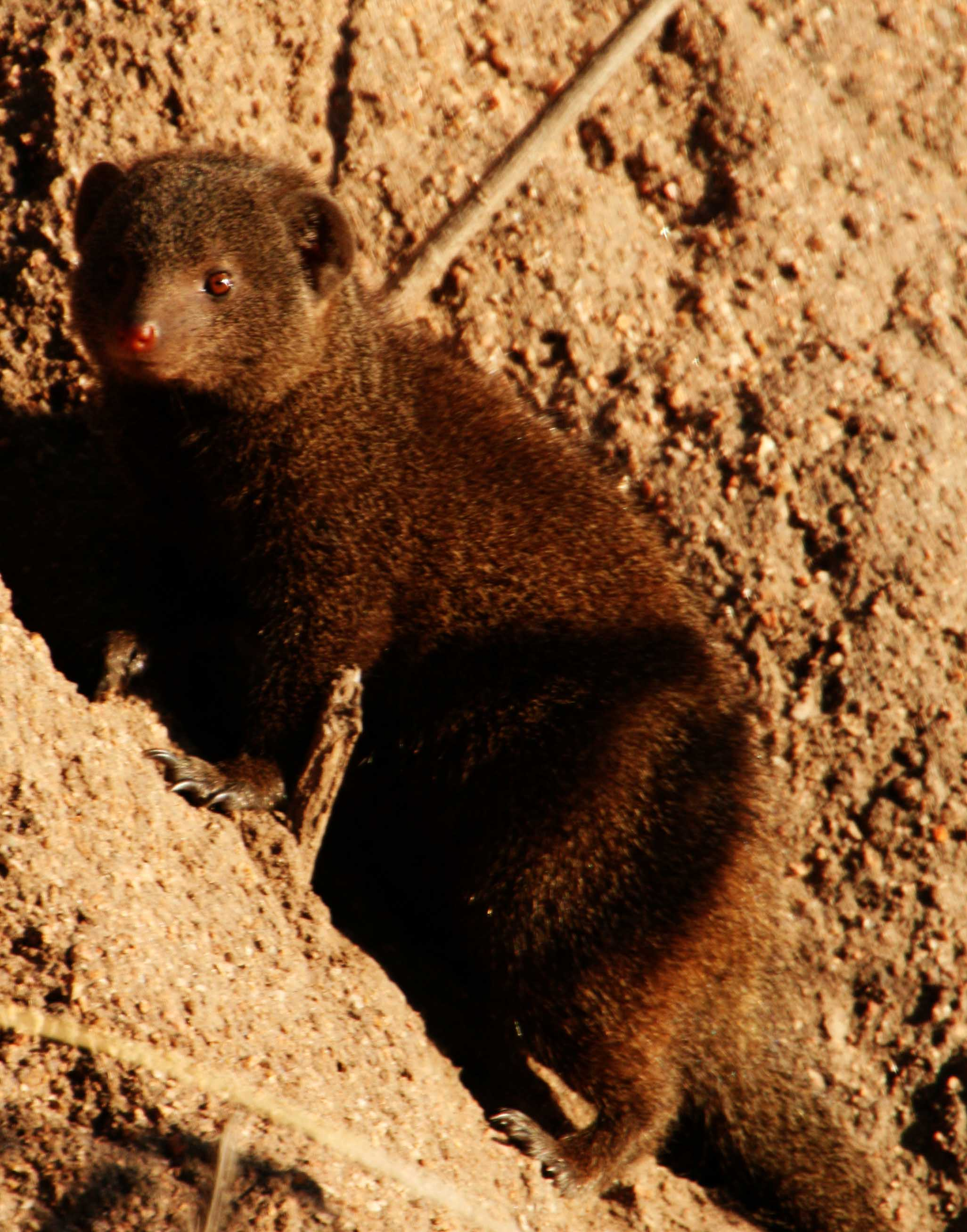 Dwarf mongoose. Sabi Sands, South Africa. Photo by Lee R. Berger